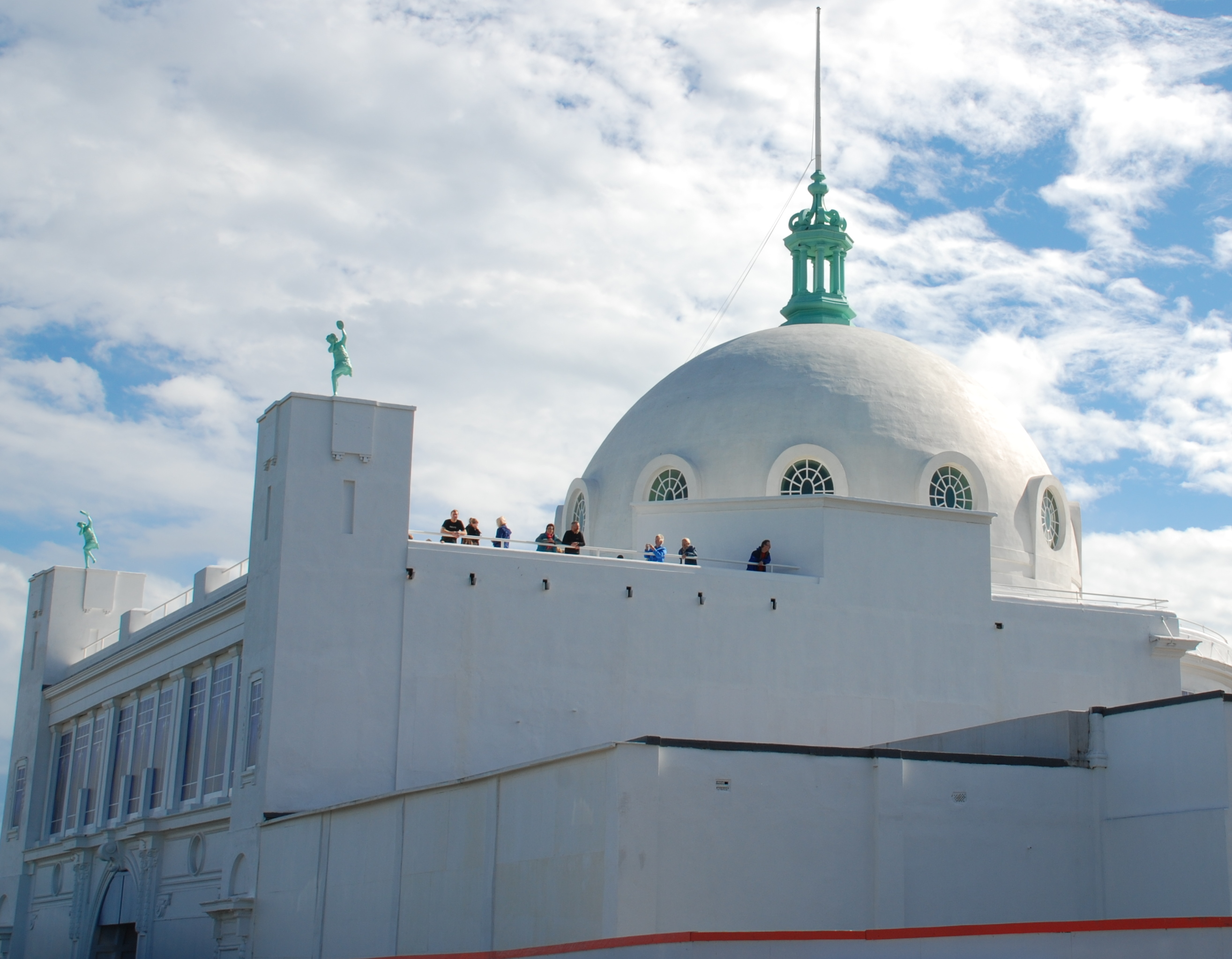 Description: The Spanish City, Whitley Bay, September 11, 2010